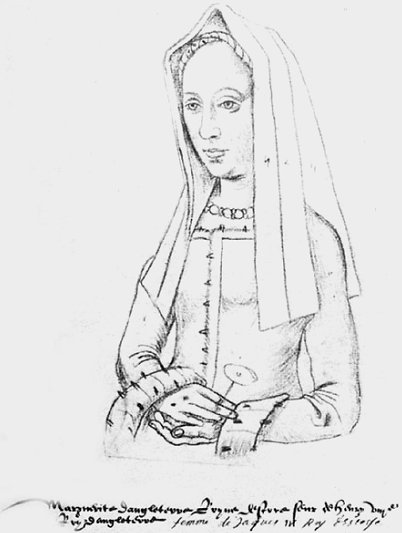 A sketch of Princess Margaret Tudor of England. Sixteenth-century drawing in the Recueil d'Arras (Arras, Bibliothèque municipale, Ms. 266)